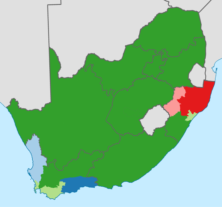 Results of the 2004 South African general elections by electoral district. African National Congress majority African National Congress plurality Democratic Alliance majority Democratic Alliance plurality Inkatha Freedom Party majority Inkatha Freedom Party plurality